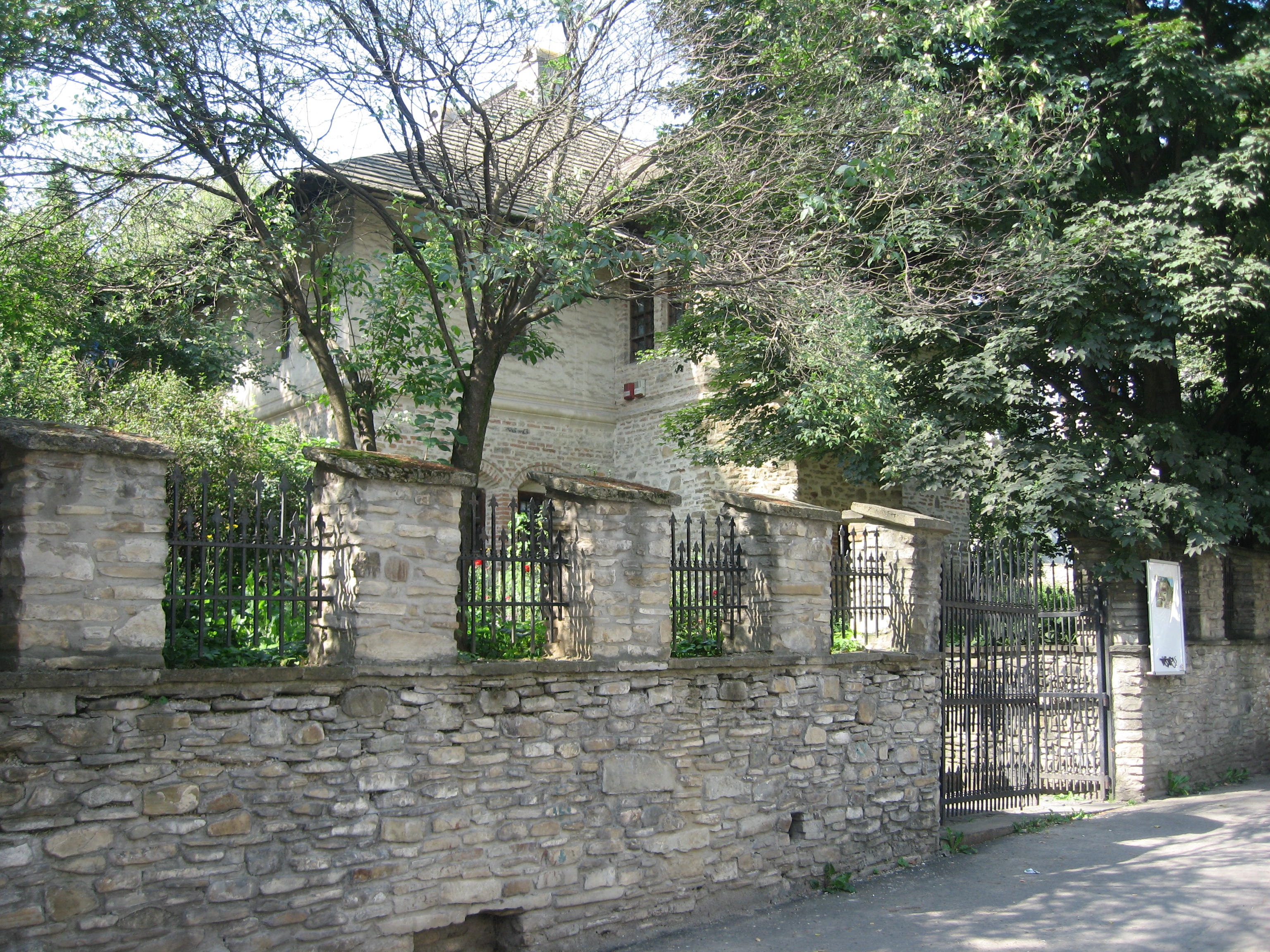 The Princely Inn in Suceava (The Ethnographic Museum).